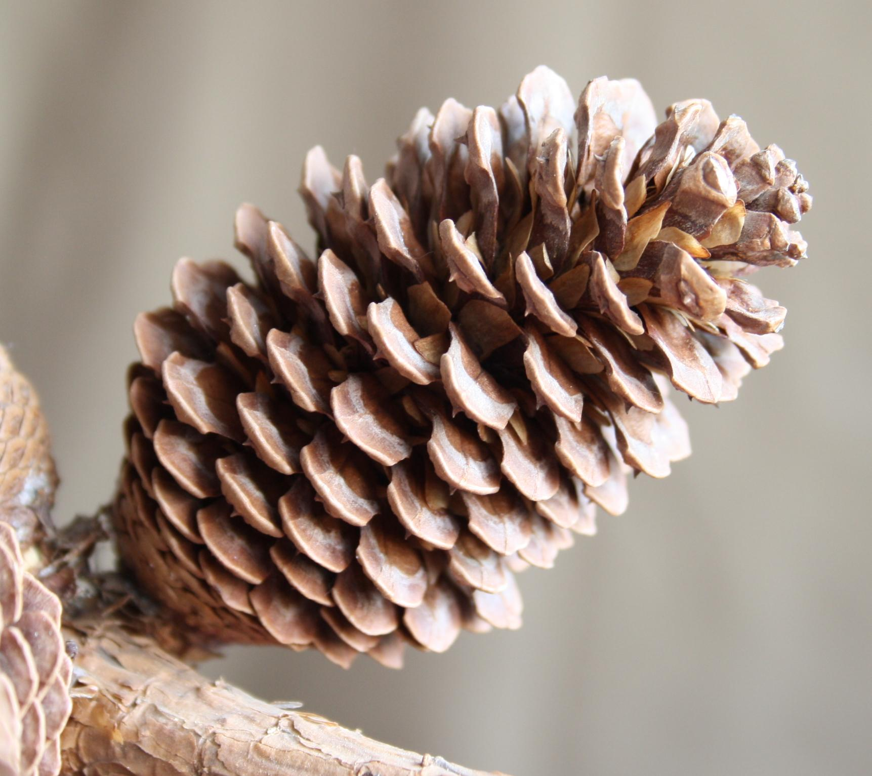 Pinus montezumae cone